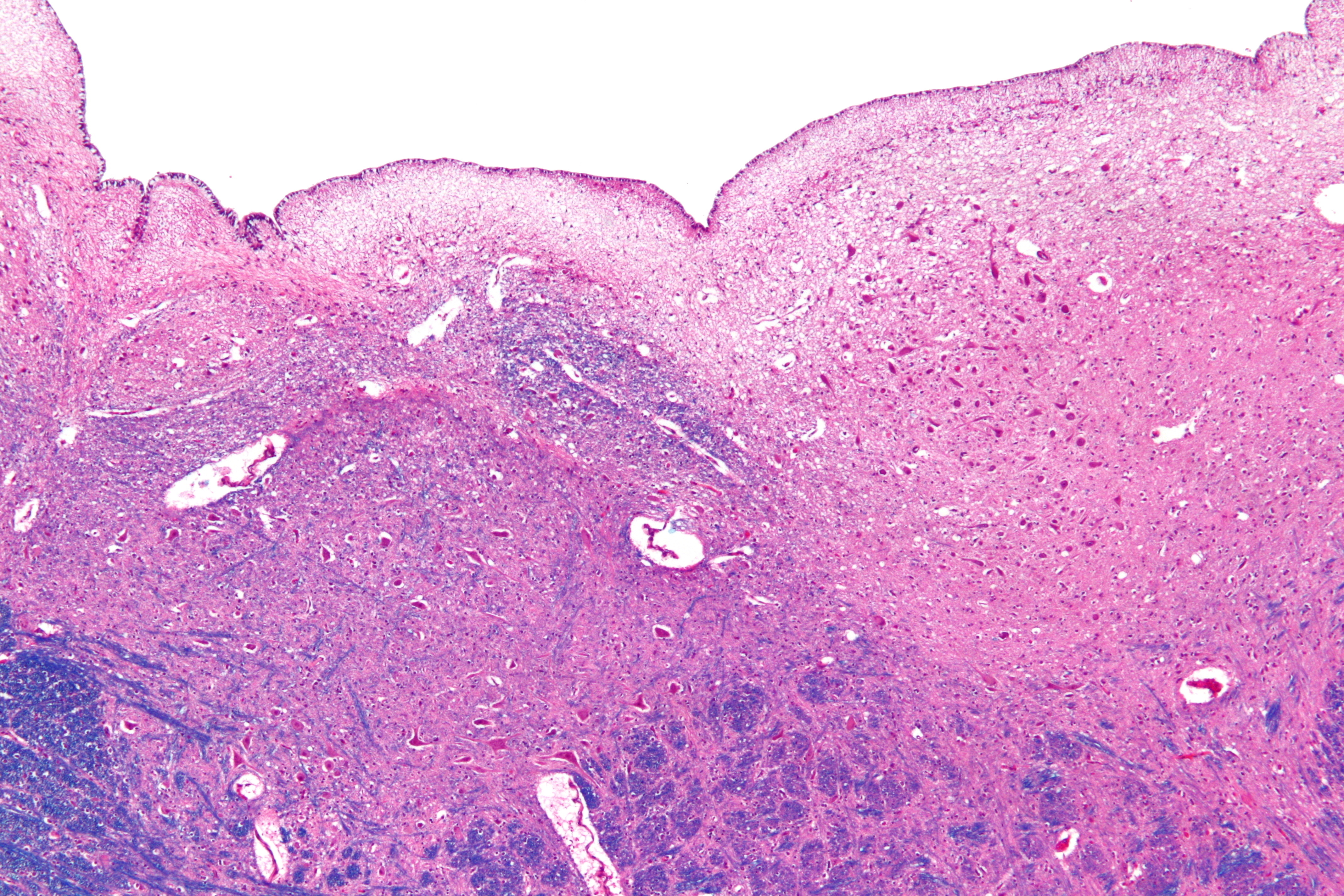 Low magnification micrograph of the medulla oblongata showing the fourth ventricle and the nuclei of the hypoglossal nerve and vagus nerve. H&E-LFB stain. Related images Very low mag. Low mag. Intermed. mag. CN X nuc. High mag. CN X nuc. Intermed. mag. CN XII nuc. High mag. CN XII nuc. Very high mag. CN XII nuc.